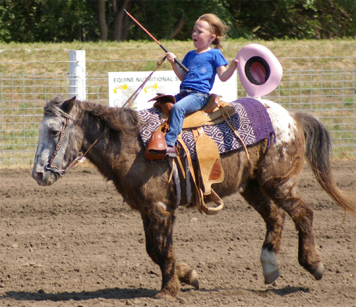 This is a very old pony - and he went all day